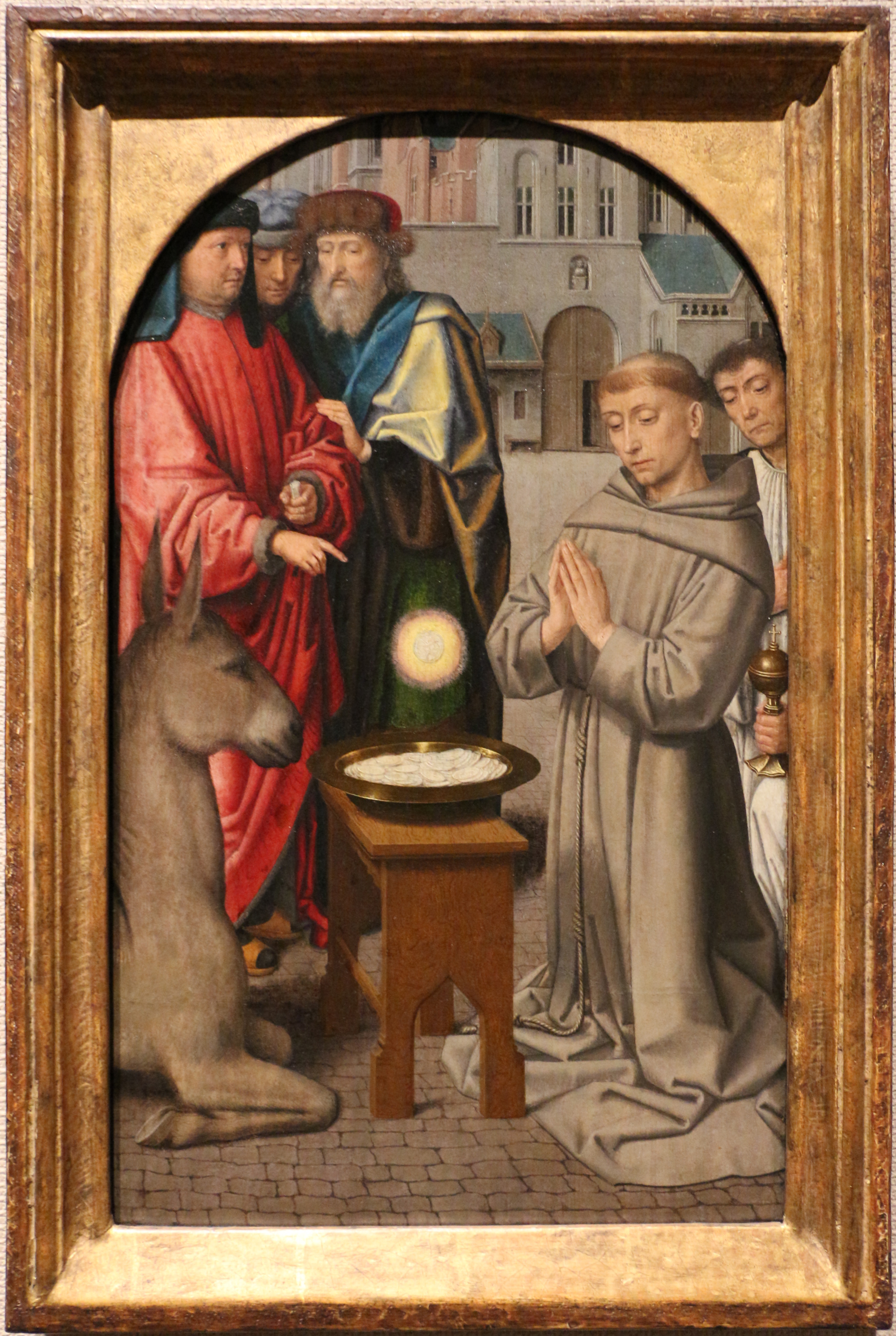 Paintings in the Toledo Museum of Art